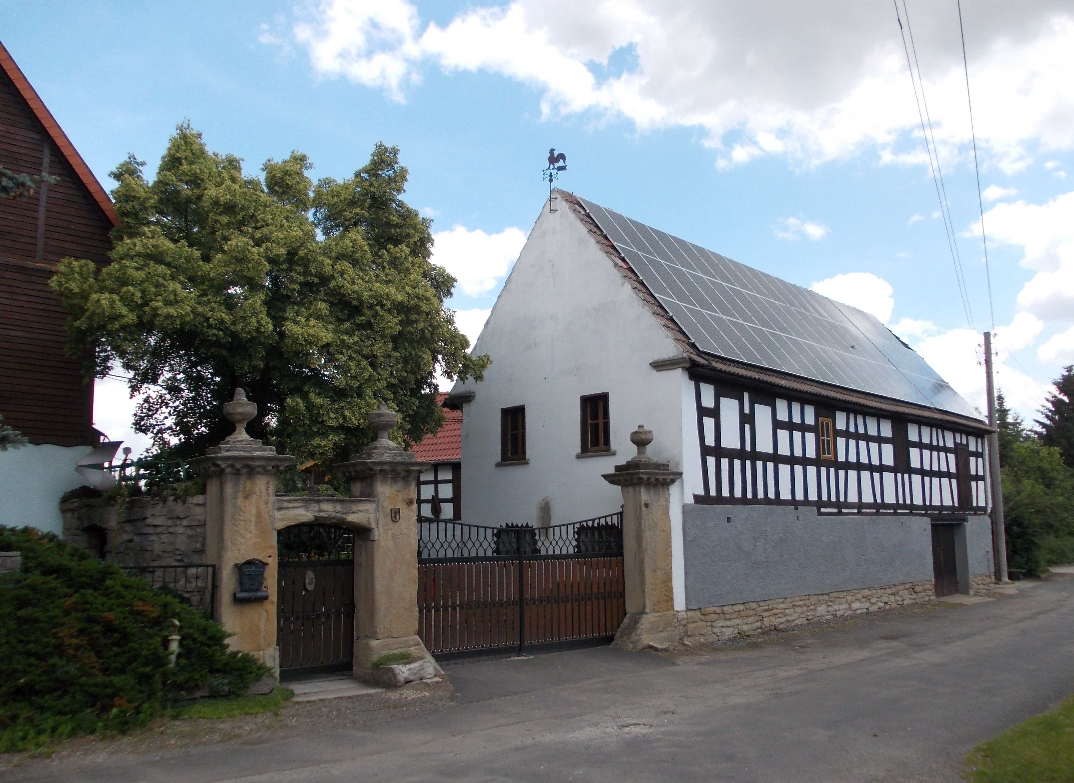 Farmstead in Hemmendorf (Groitzsch, Leipzig district, Saxony)